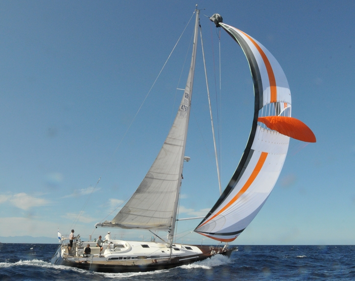 A Swan 53 in Swan Cup 2008. The Swan 53s were designed by German Frers and 50 of them produced 1986-1994.